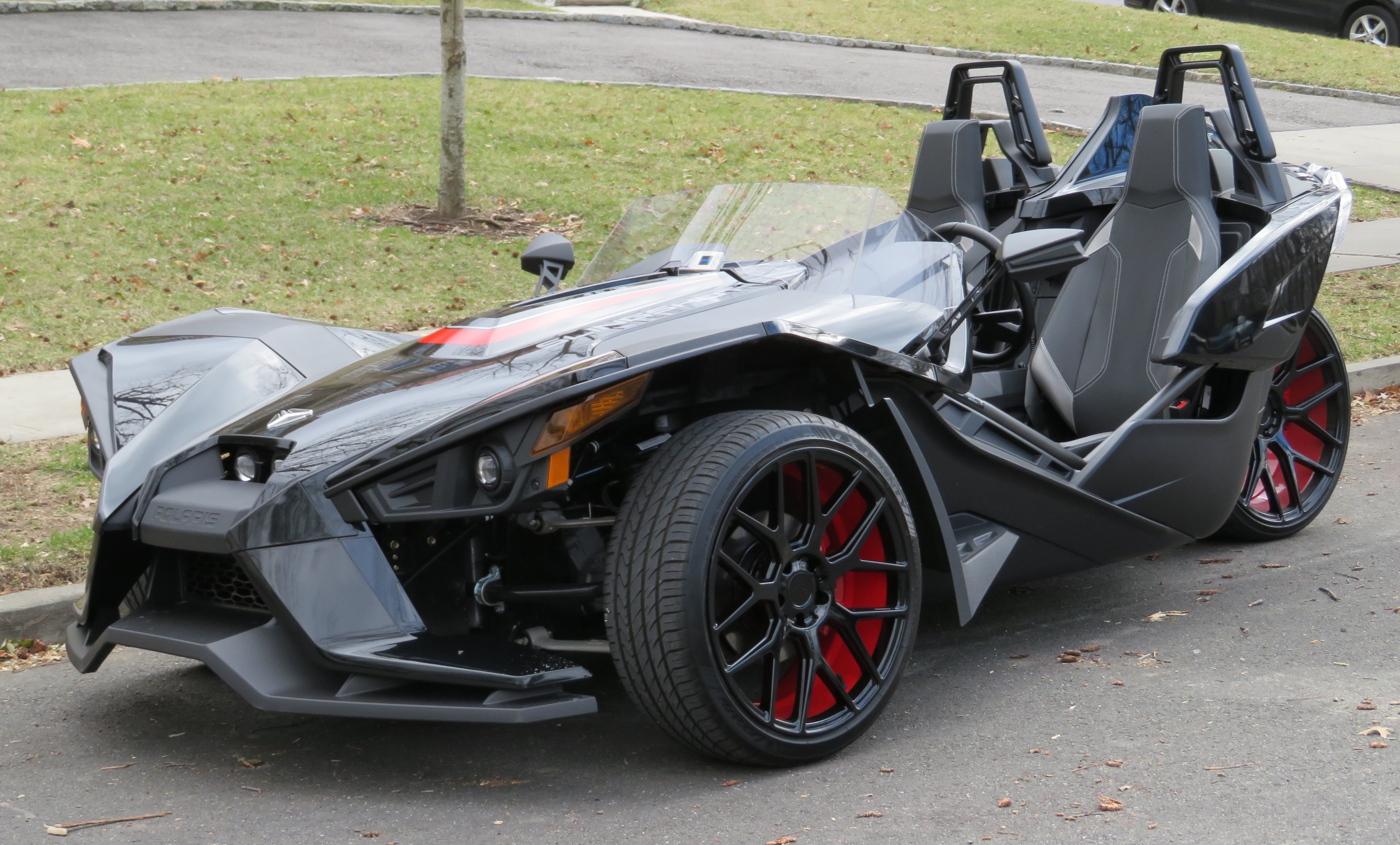 In Queens, New York.